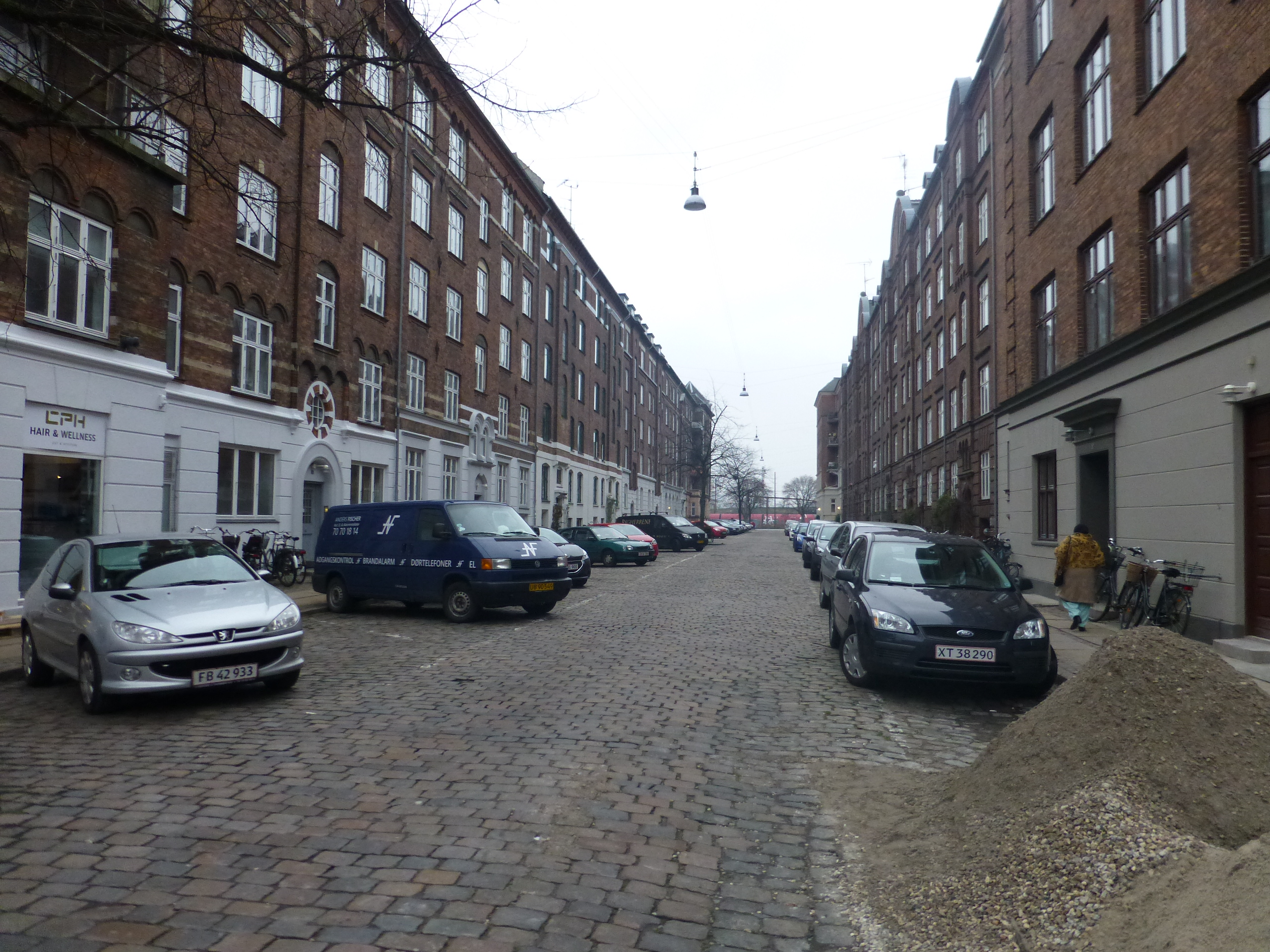 The street Asger Rygs Gade in Vesterbro in Copenhagen.